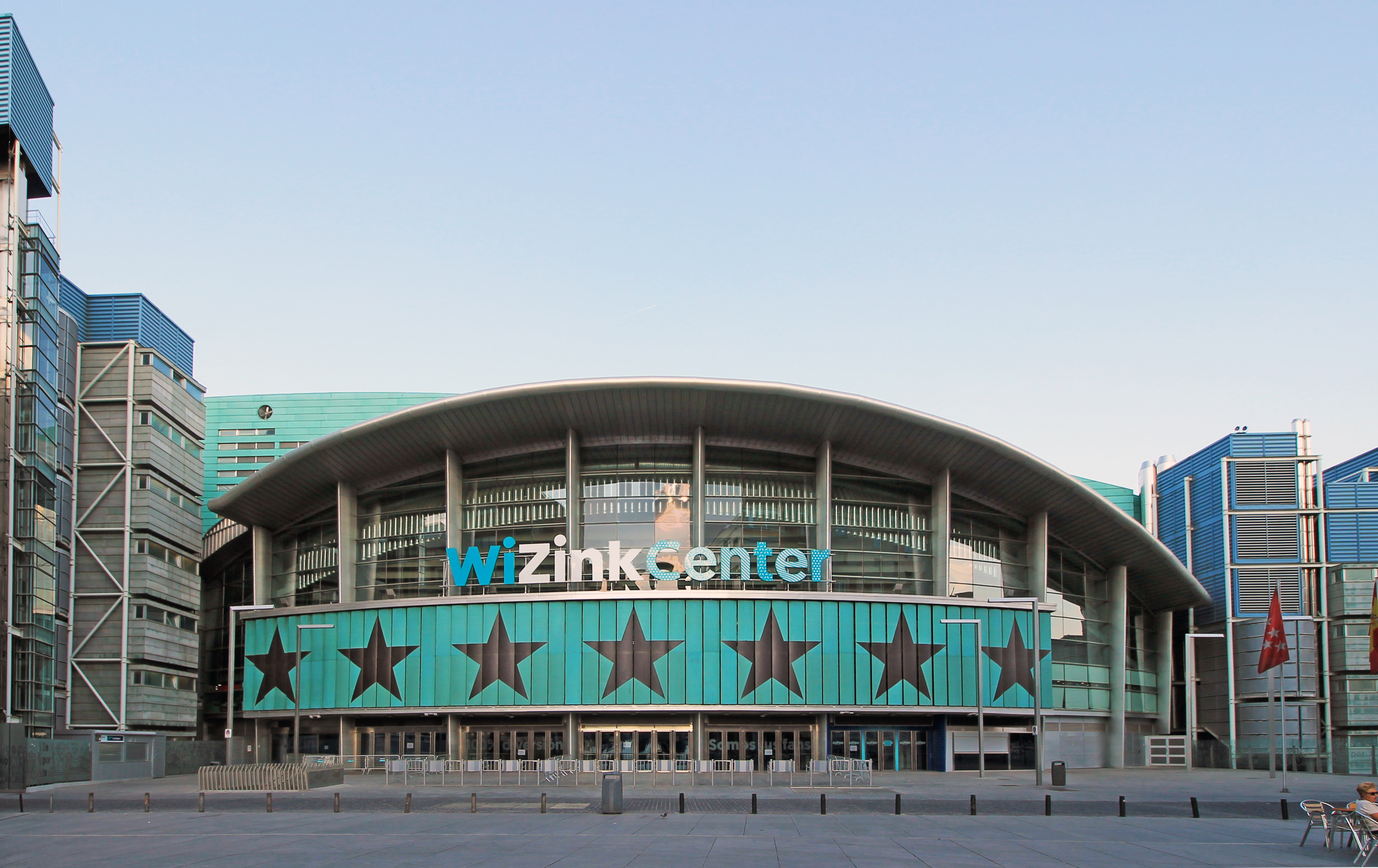 West façade of Palacio de Deportes de la Comunidad de Madrid (Madrid, Spain).